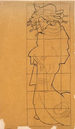 Vincent van Gogh's tracing of the courtesan figure on the title page of Paris Illustré "Le Japon' vol. 4, May 1886, no. 45-46 which he used for his painting 'The Courtesan'.